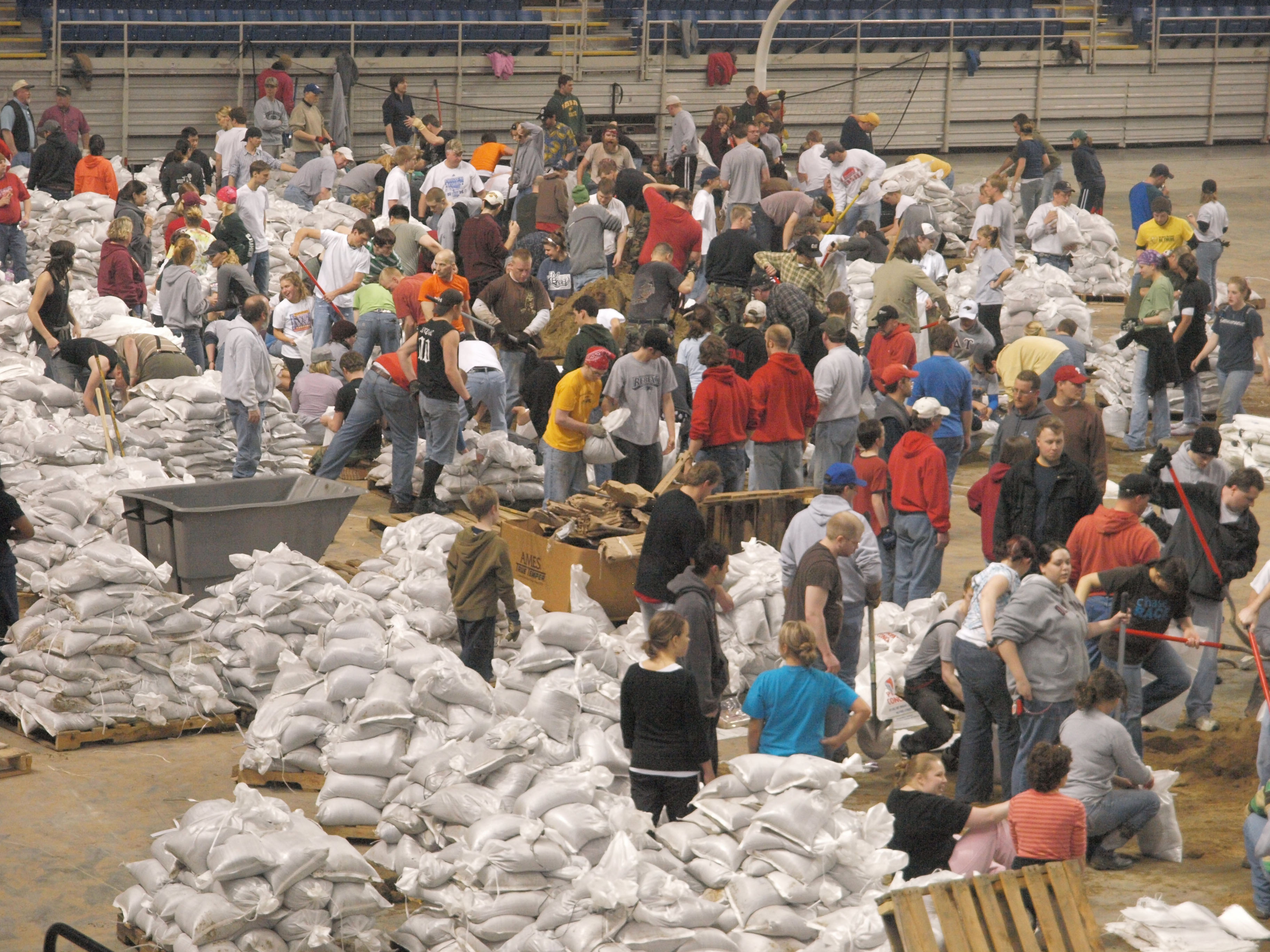 Fargo, ND, March 23, 2009 -- Students and community members work together with the National Gard at the Fargo Dome making sand bags on a 24 hour operation. Photo: Michael Reiger/FEMA